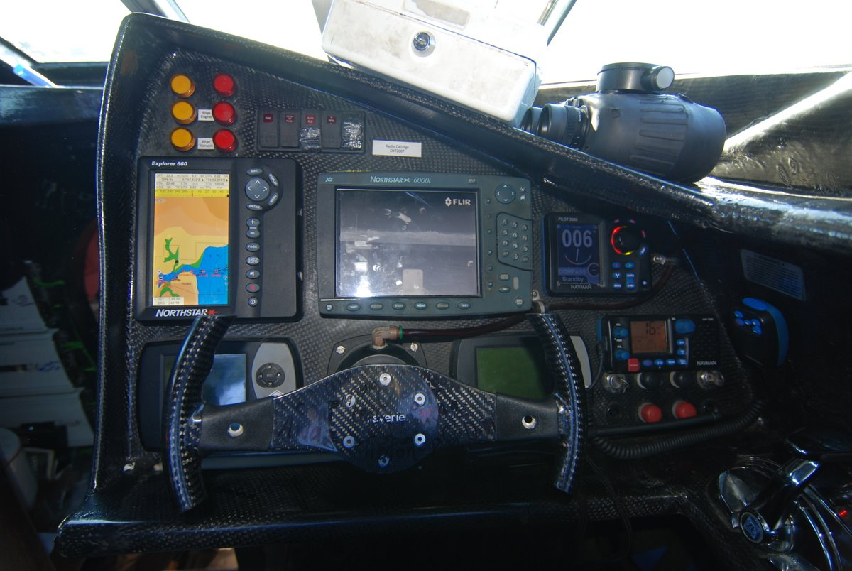 One side of the very futuristic wheelhouse.